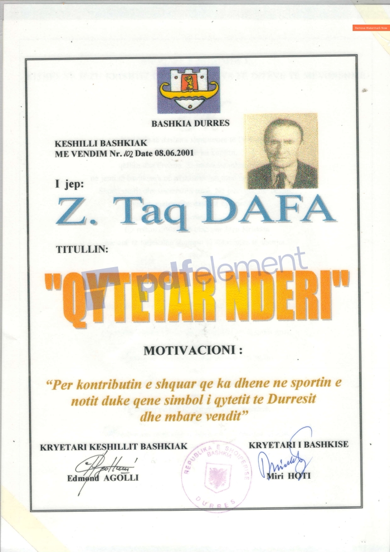 Titulli Qytetar Nderi